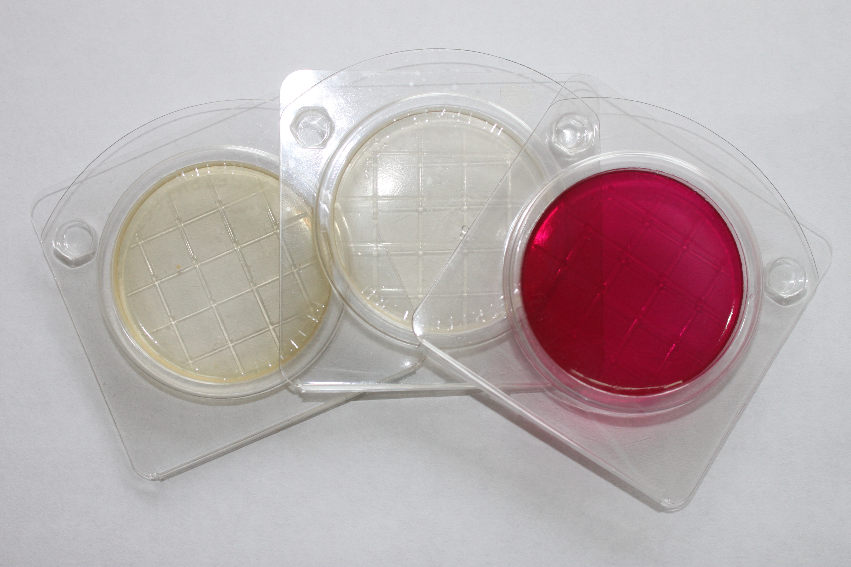 Microbiological express test